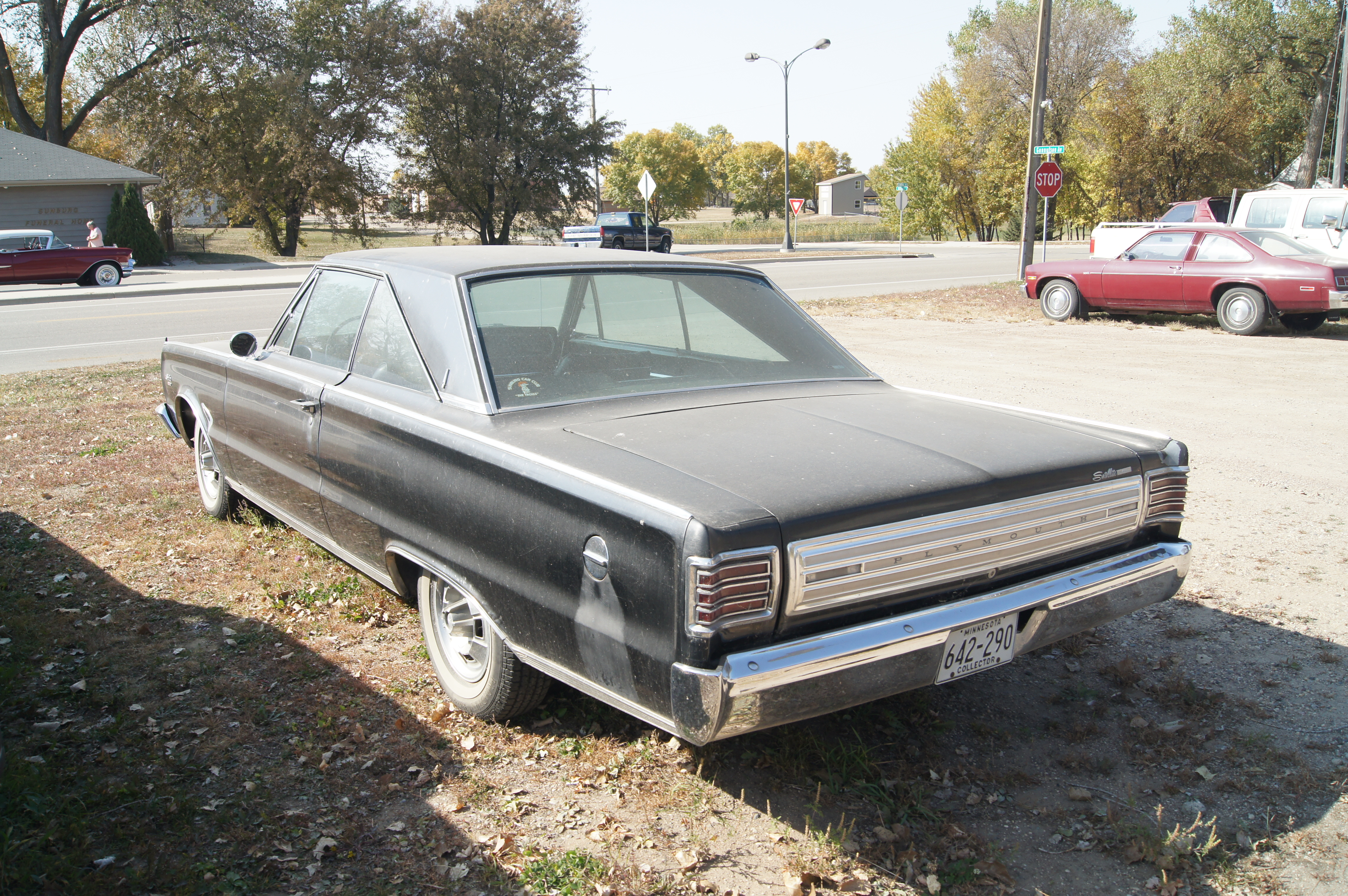 The Alexandria Vintage Car Club had a Fall Cruise that followed the Glacial Ridge Trail. Rich Carlson, President of the Alexandria Club, picked a beautiful day and a gorgeous route from Alexandria to New London. Glenwood A&W and Jorgenson's Museum in Sunburg were stops along the way.